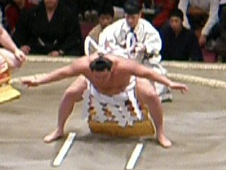 Yokozuna dohyou iri (Shiranui-style: Hakuhō)